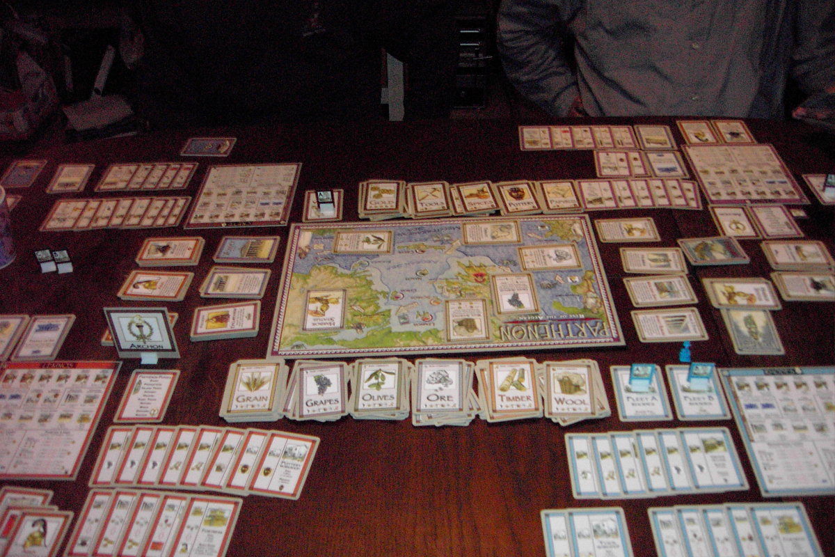 Parthenon: Rise of the Aegean, 2005 by Z-Man Games. Near the end of the game.